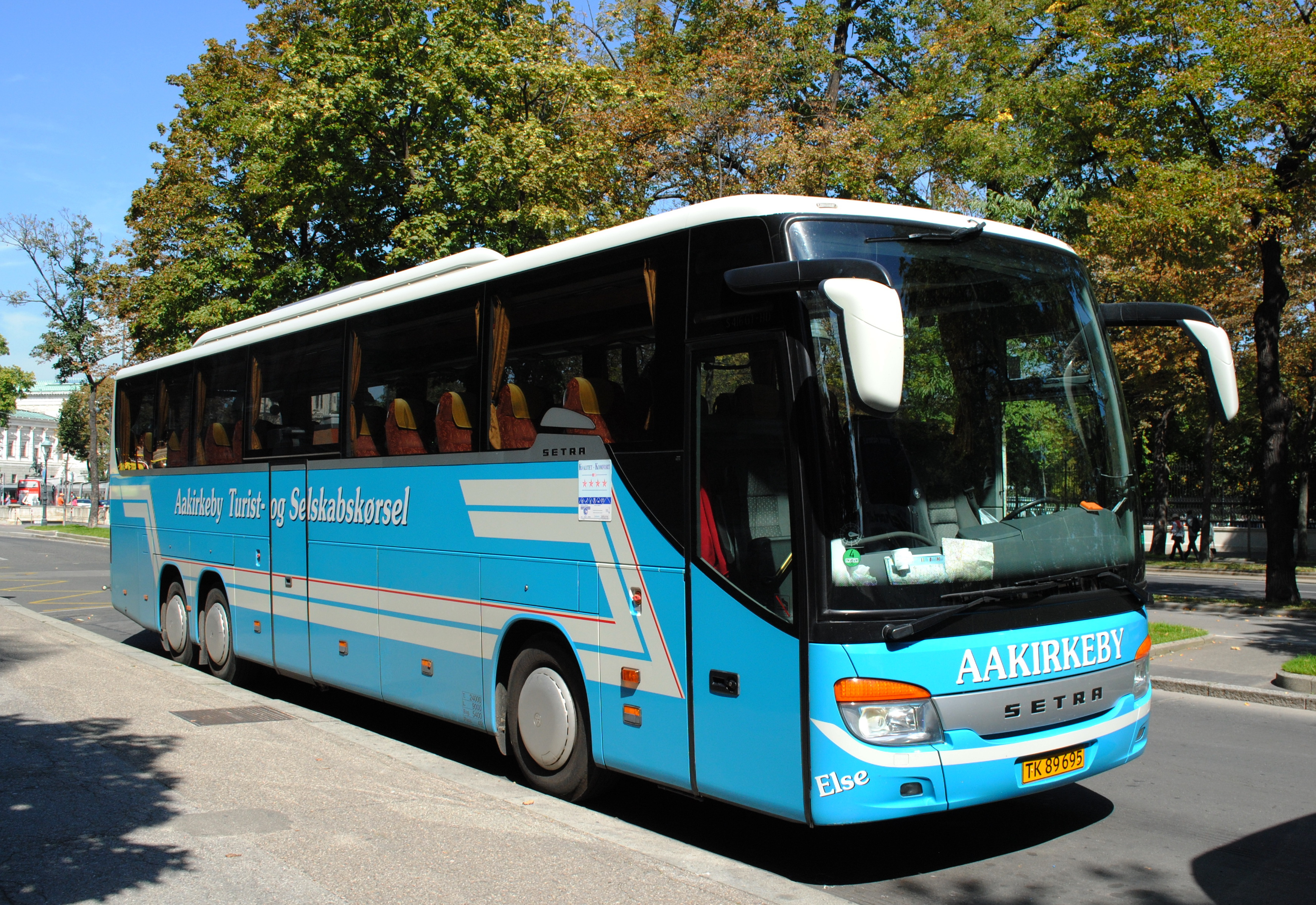 A Setra S 416 GT-HD from Denmark. Aakirkeby operator.